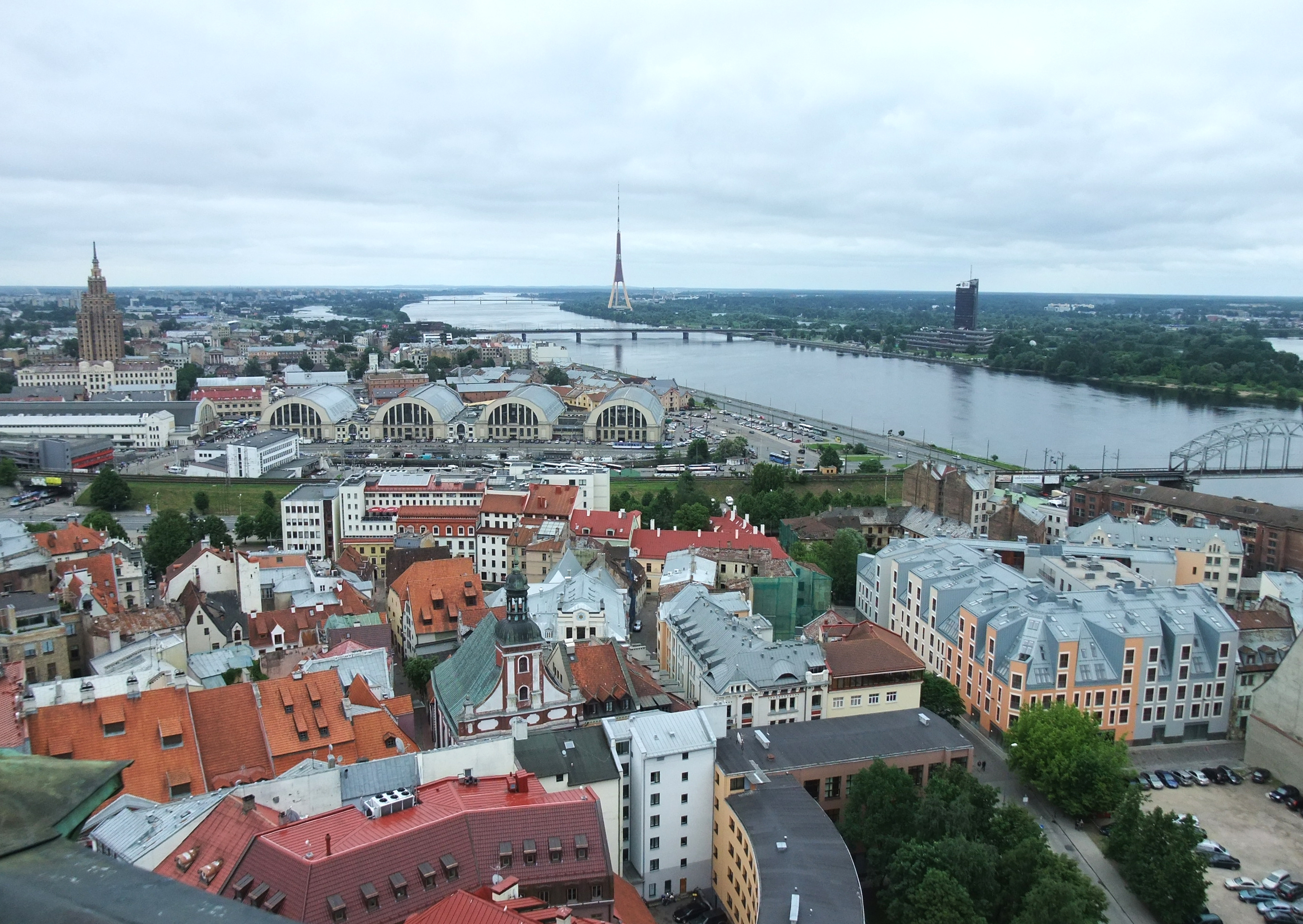 View from St. Peter's Church at Riga, Latvia